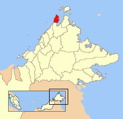 Showing Kudat city on map of Sabah, Malaysia